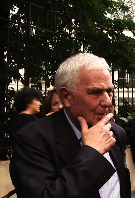 French writer Philippe Sollers at the inauguration of Gaston-Gallimard street in Paris 15.06.2011